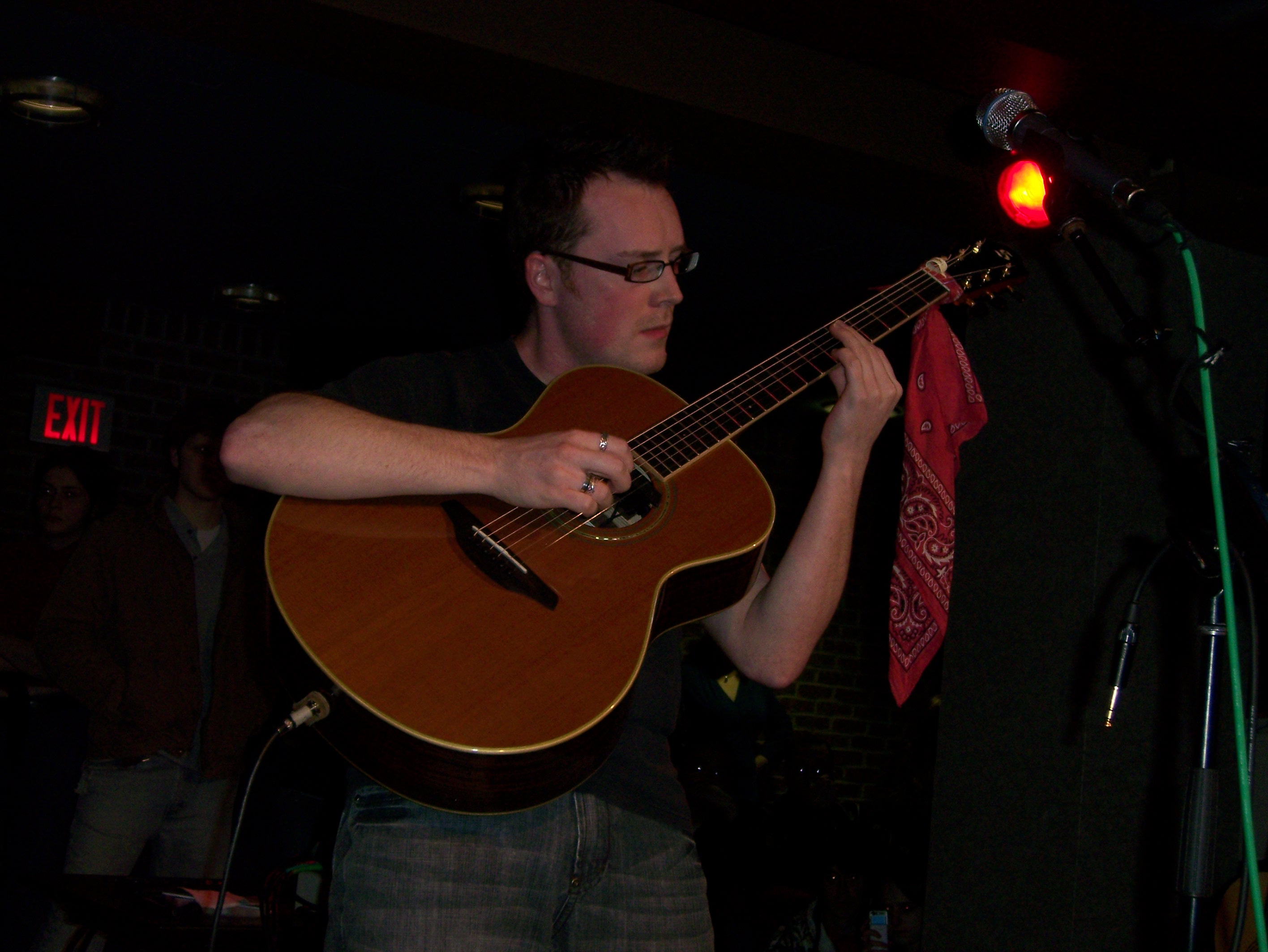 Photo of Antoine Dufour live in concert at Carnegie Mellon University, Pittsburgh, Pennsylvania